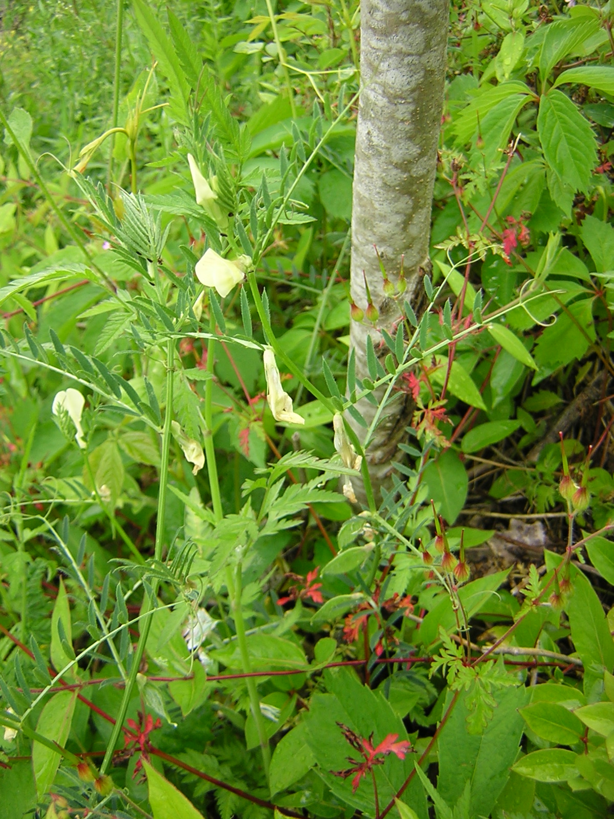 Vicia lutea Angers, France Author : Augustin Roche Source : own work